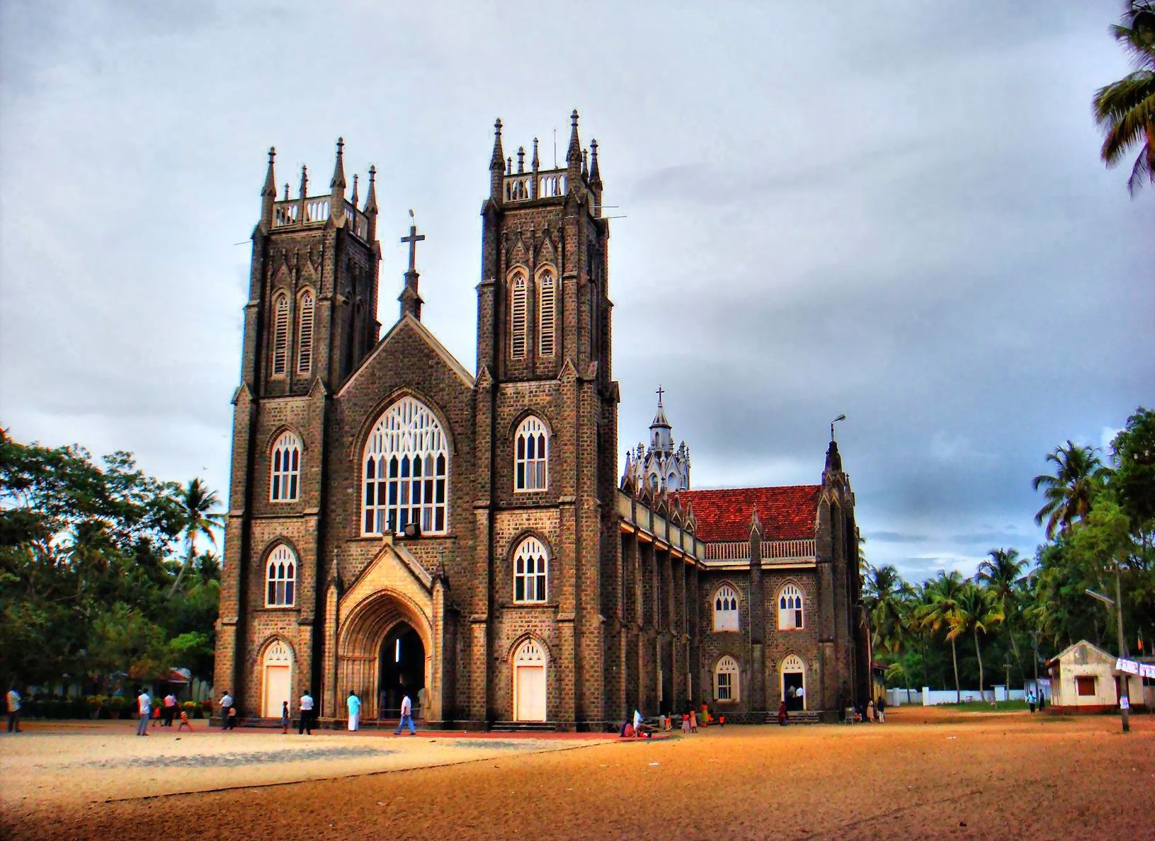 Arthunkal one of the oldest Christian churches in Kerala, is about 22 kilometers north of Alappuzha town. It was once a budhists temple and the name Arthungal derived from Arhant+kall (temple) Portuguese rebuilt this in 17th century B.C. for more info watch. The deity is that of St.Sebastian, and church comes under the Latin order. It is believed that there in Arthunkal, a number of Christians lived as per traditional style and they were not baptized as there was no church or priest. These people belonged to the Chaldean order (Marthoma sect). In 1579 AD they got permission from the Moothedathu land lords to build church and a thatched hut was built with only a cross inside.